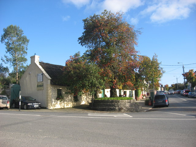 Seamus Ennis Cultural Centre, The Naul, Co. Dublin. Opened in 2001 and named after the celebrated piper and folk music collector who was a native of the village [1].